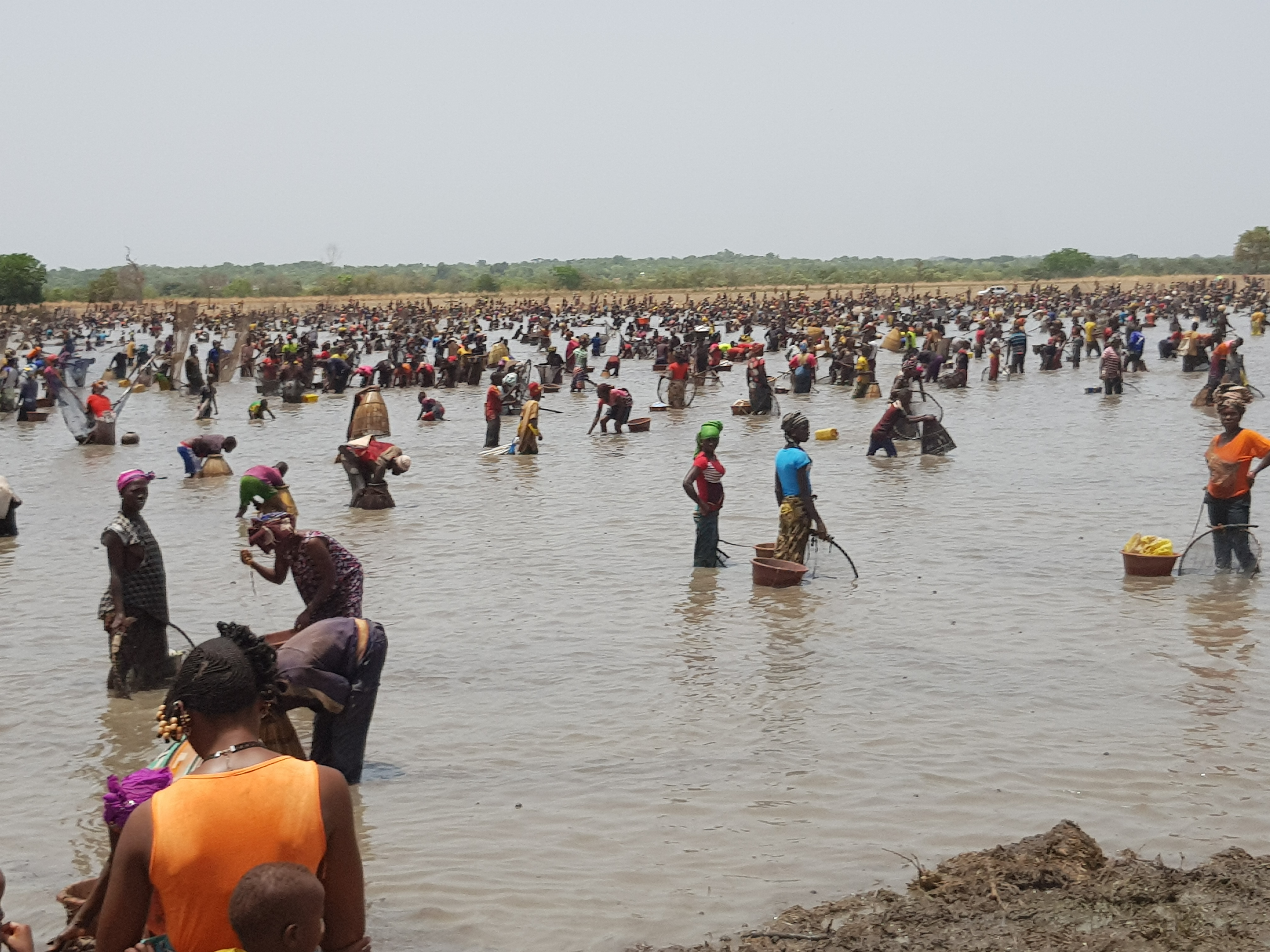 ߣߌ߲߬ ߦߋ߫ ߣߎ߲ߞߎ߲ߞߊ߲߫ ߘߊ߬ߟߊ ߟߋ߬ ߘߌ߫